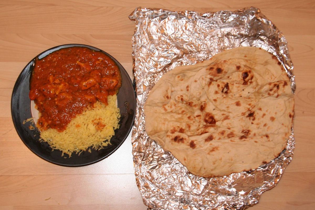 Chicken Balti Bhuna, Pilau Rice and Plain Naan, takeaway from The Guru Balti Restaurant, Edinburgh